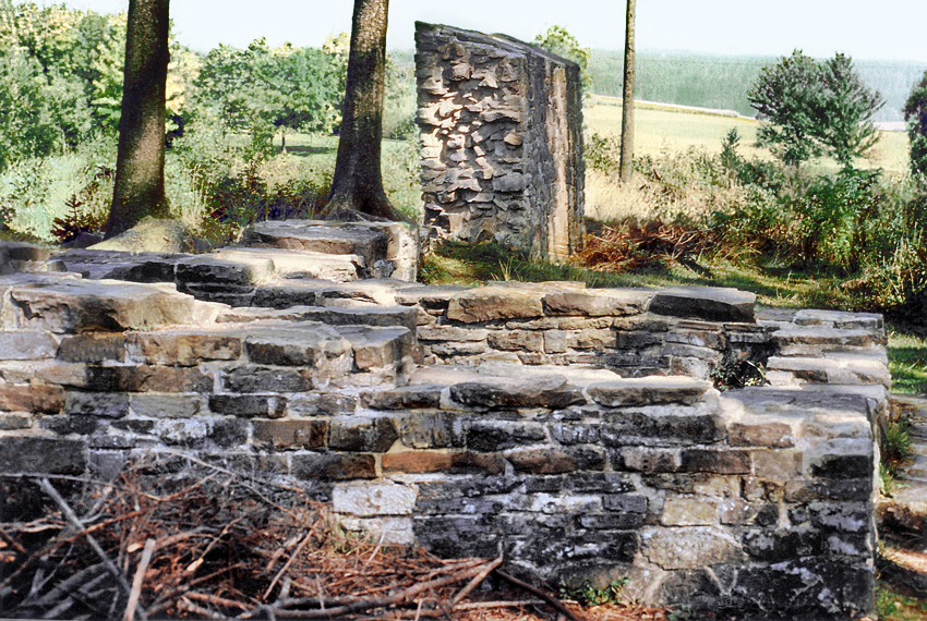 Foreground: the tower “WP 12/77” (WP = WachPosten = watchtower); background: reconstructed stone wall near Rainau-Buch at the German-Raetian border wall.